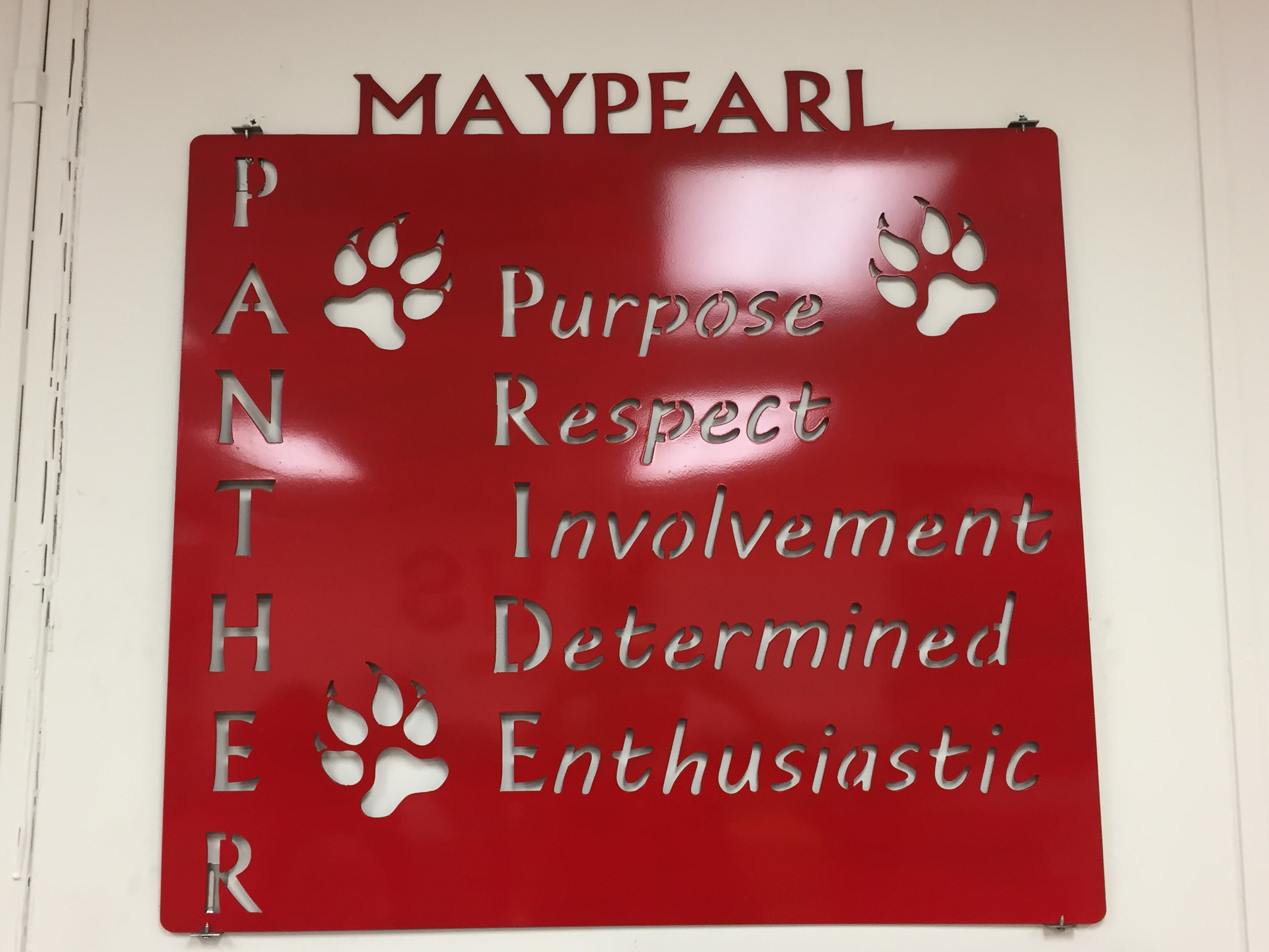 MISD MHS Pride